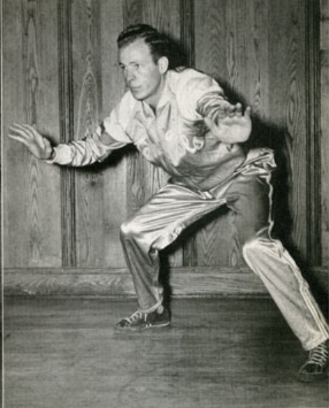 University of Tennessee basketball player Garland O’Shields